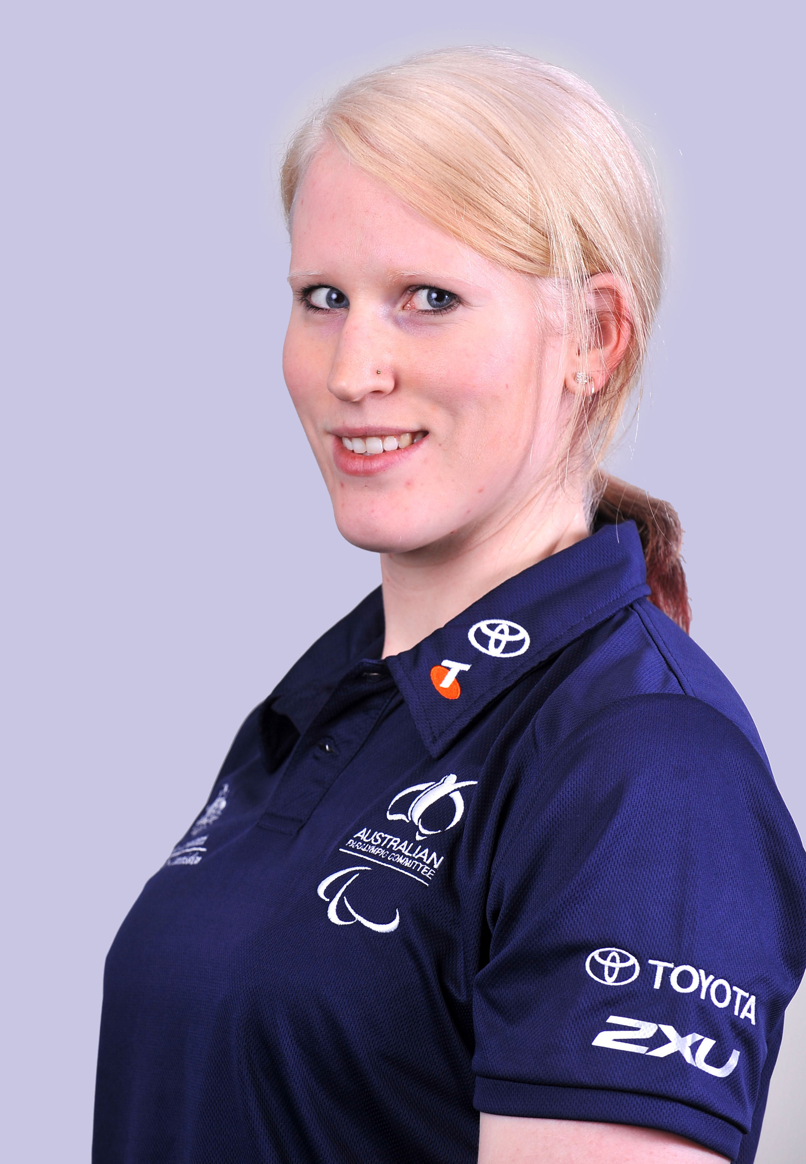 Portrait of Australian goalball player Meica Christensen, 2012 Australian Paralympic (shadow) Team athlete